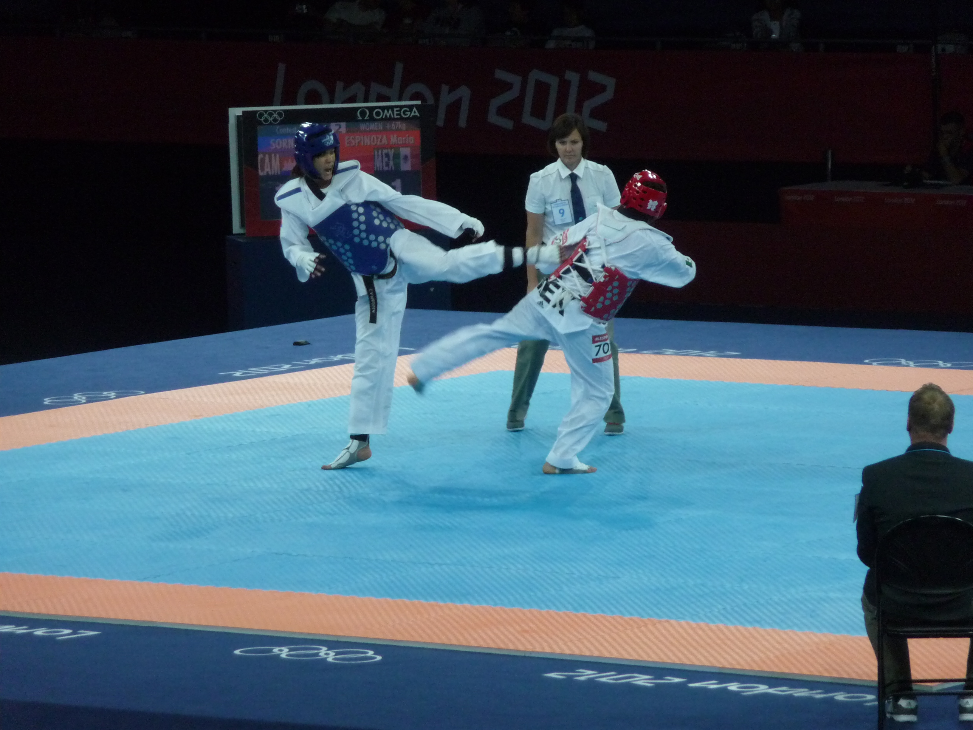 Sorn Davin vs María Espinoza at the 2012 Olympic games. Sorn lost to Espinoza 2-3 in the first round.